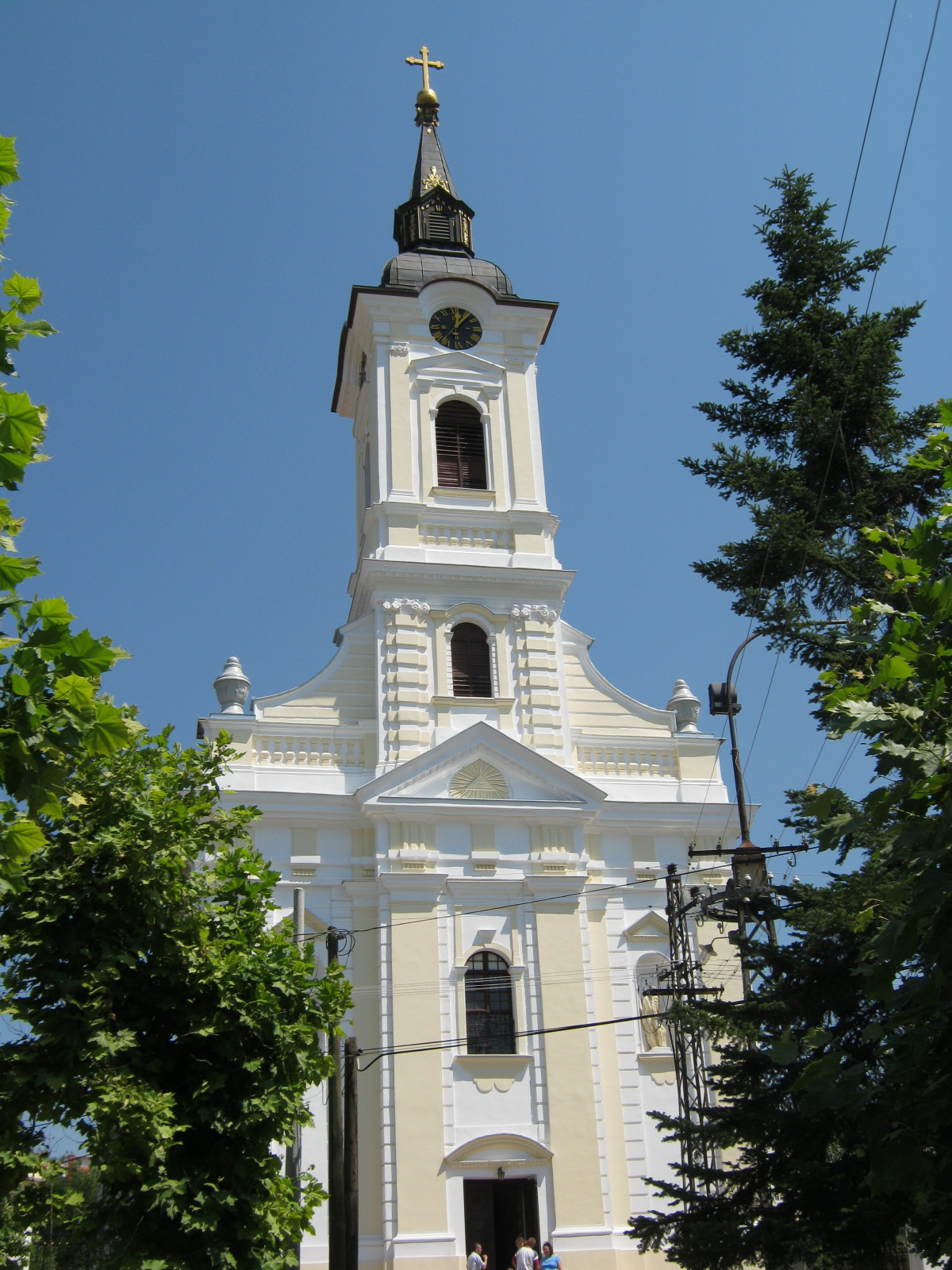 The St. Anna church in Bela Crkva, Serbia